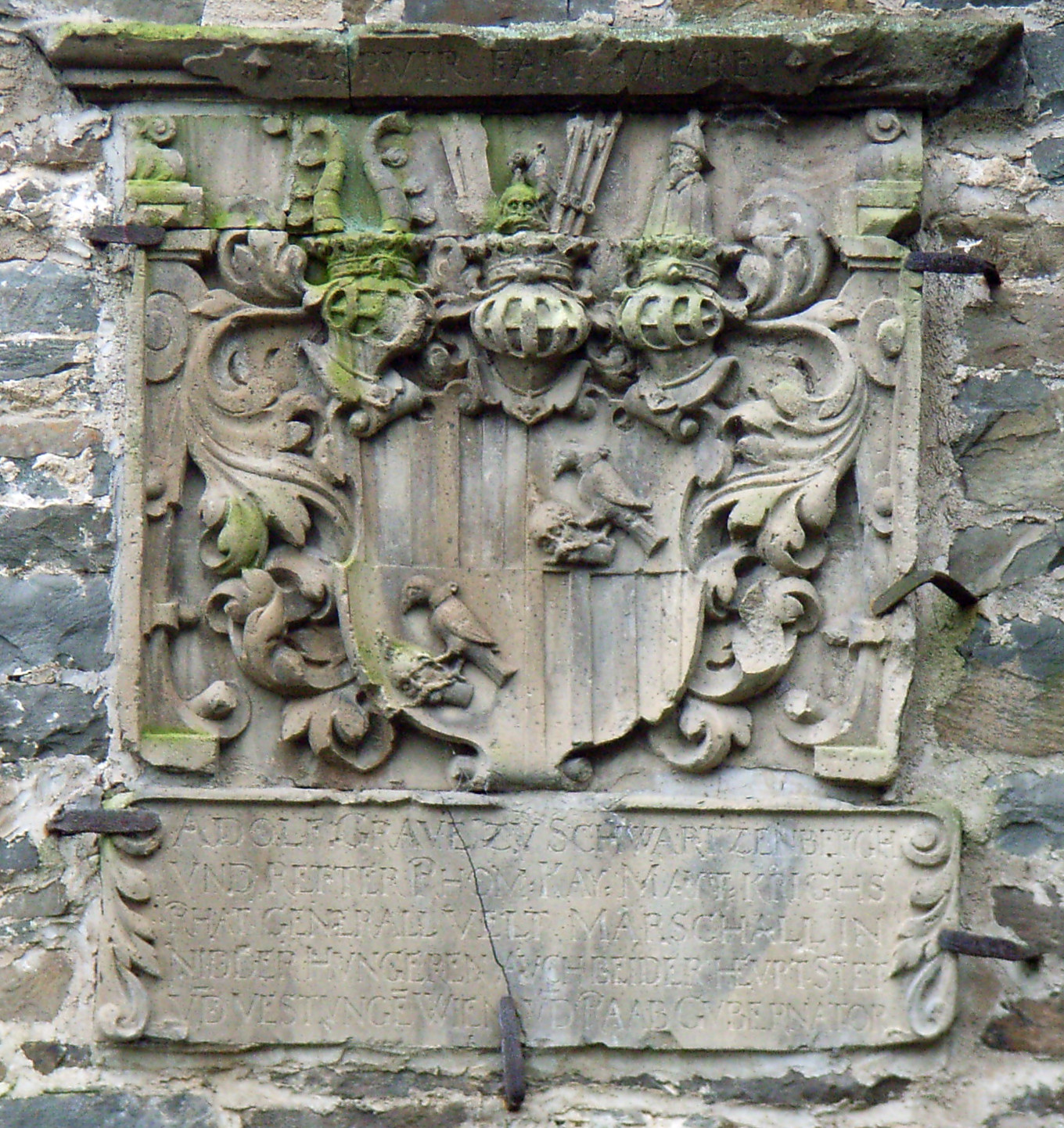 Coat of arms of Adolf von Schwarzenberg. Gimborn castle, district of Marienheide, North Rhine-Westphalia, Germany.